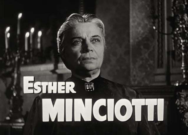 Esther Minciotti in House of Strangers - trailer (cropped screenshot)